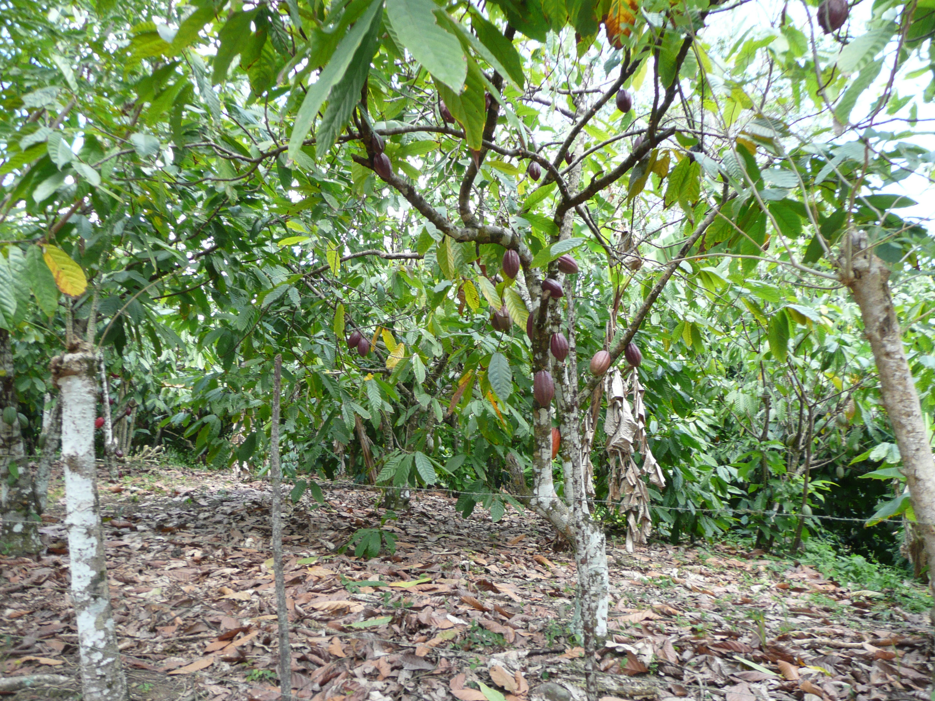 Theobroma cacao tree in Punta Cana, Dominican Republic.